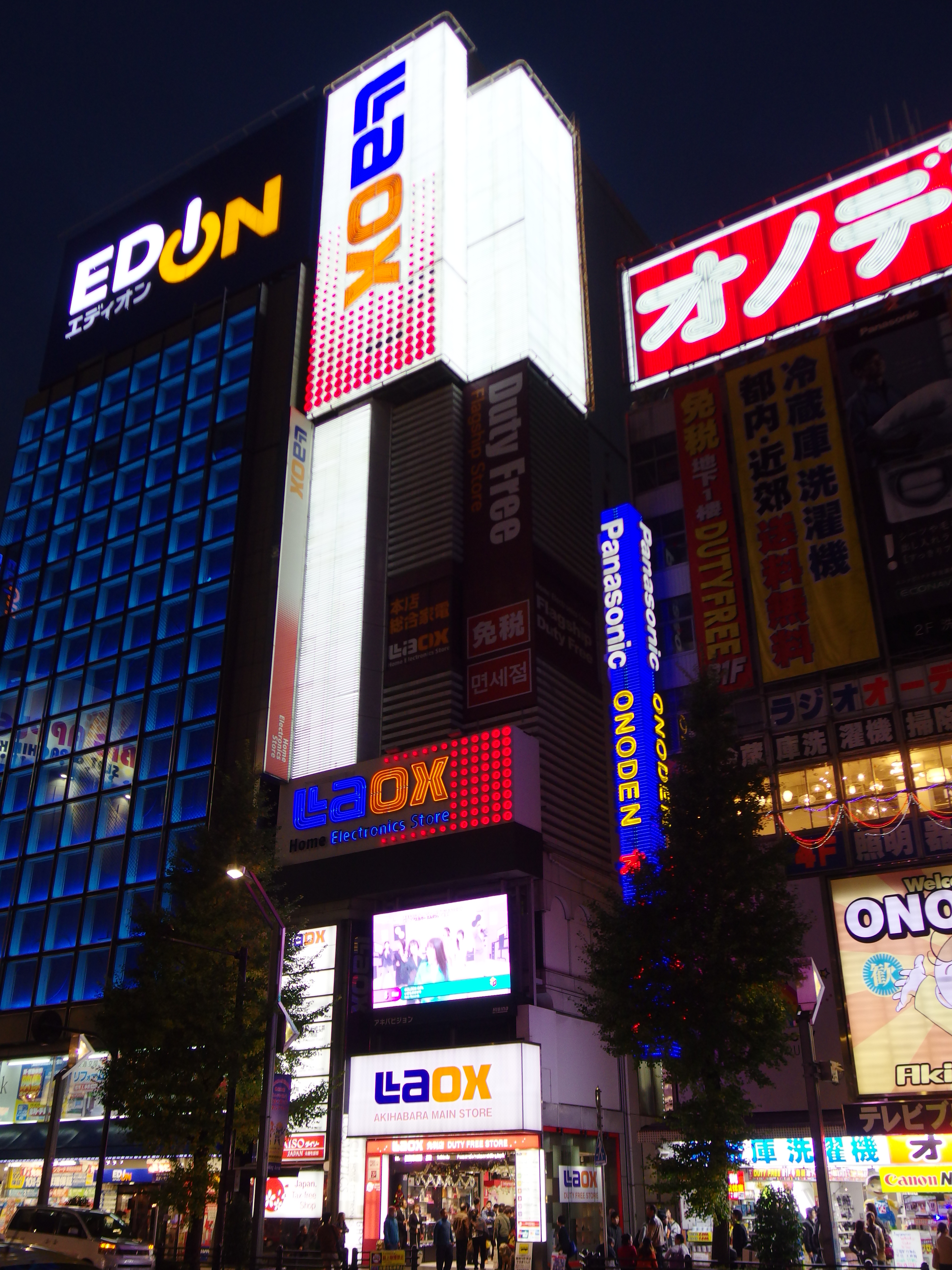 LAOX Akihabara Main Store